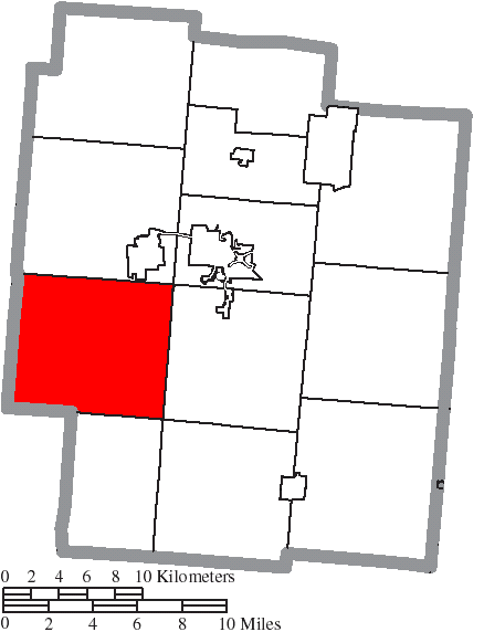 Map of the municipal and township boundaries of Jackson County, Ohio, United States, as of the 2000 census, with the location of Scioto Township highlighted. Township borders are shown only in unincorporated areas in order to differentiate incorporated and unincorporated areas more clearly.